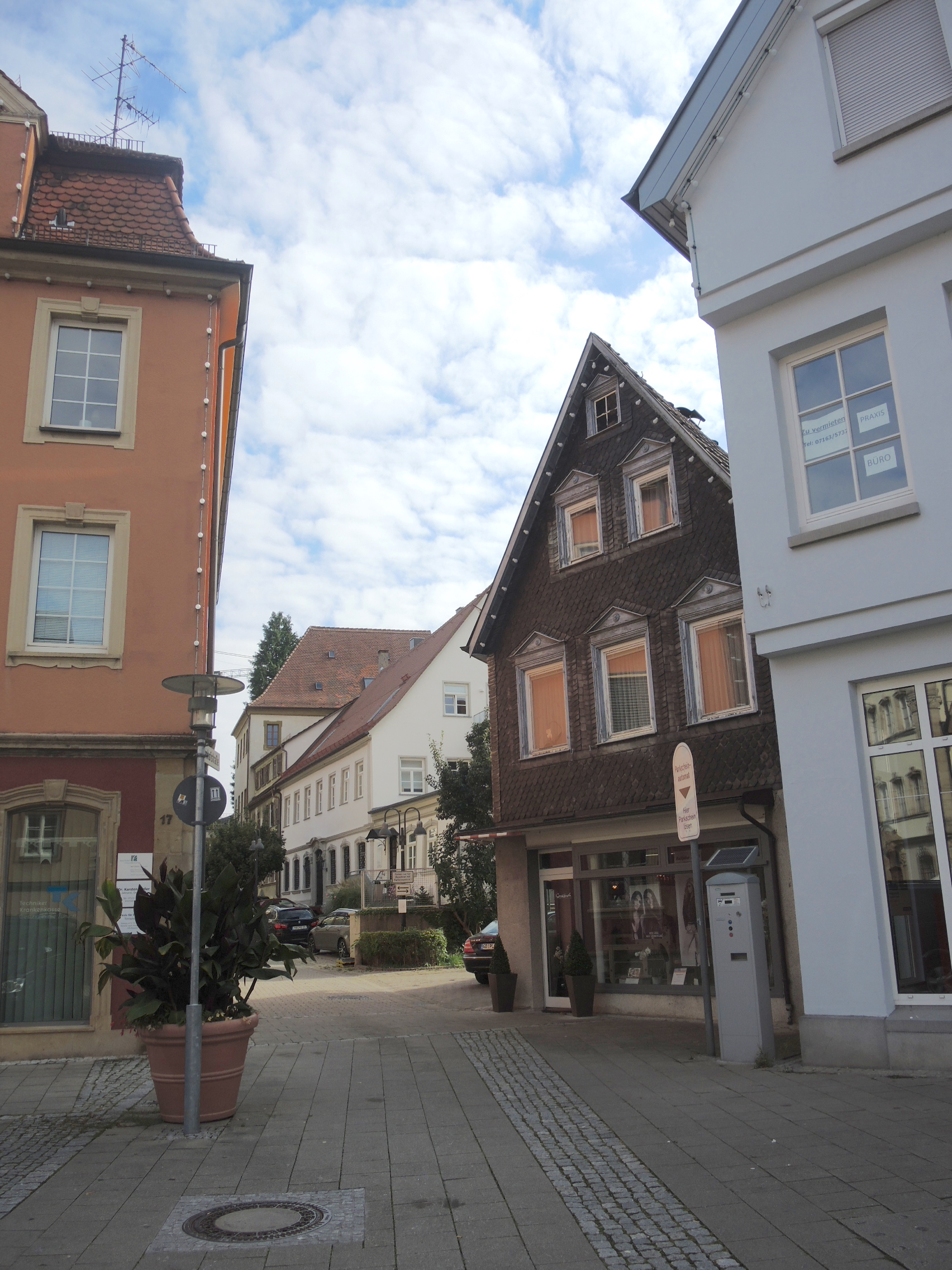 Entrance from the Kornhausstraße to the Imhofstraße in Schwäbisch Gmünd